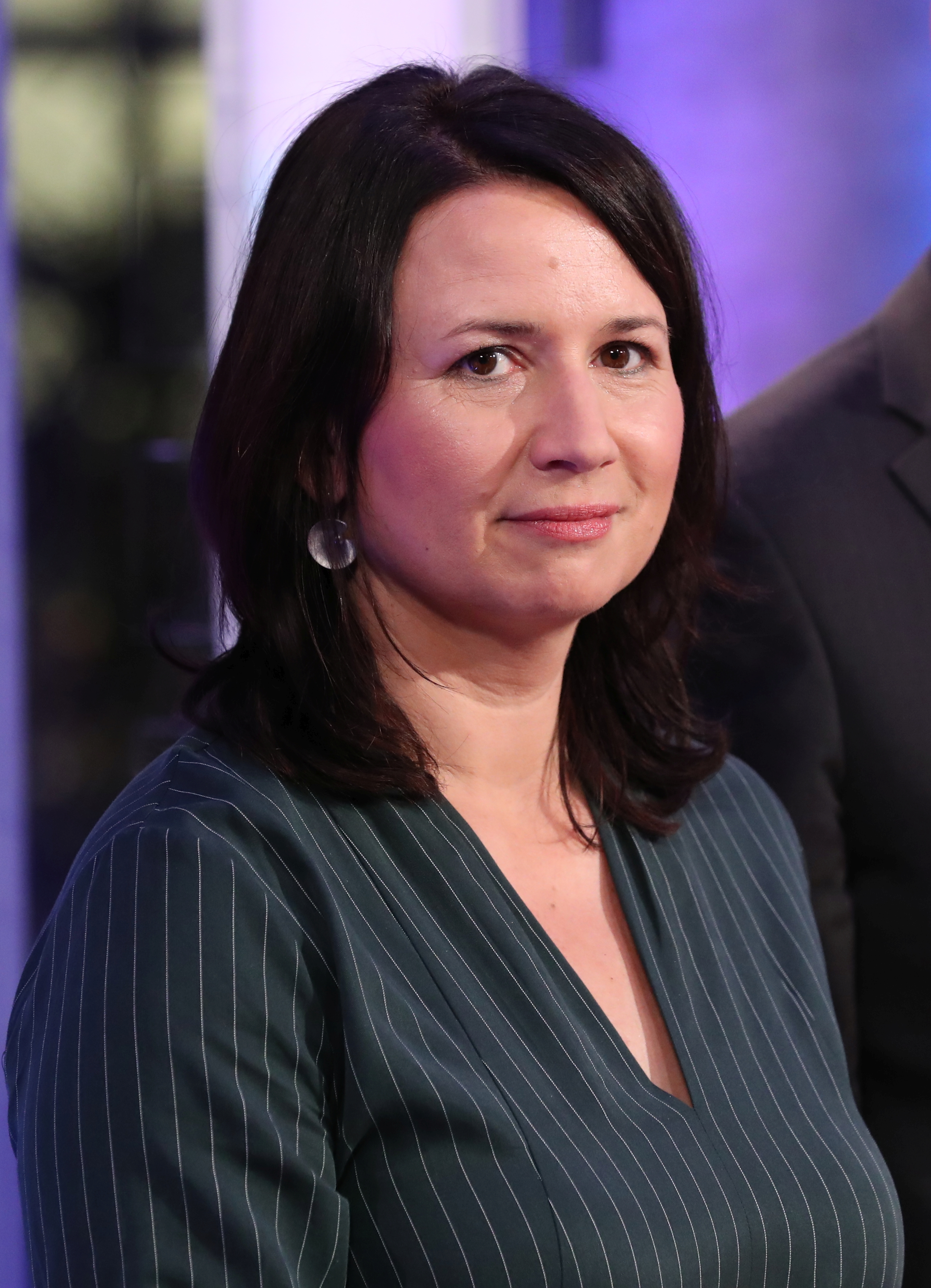 Election night Thuringia 2019: Anja Siegesmund (Bündnis 90/Die Grünen)